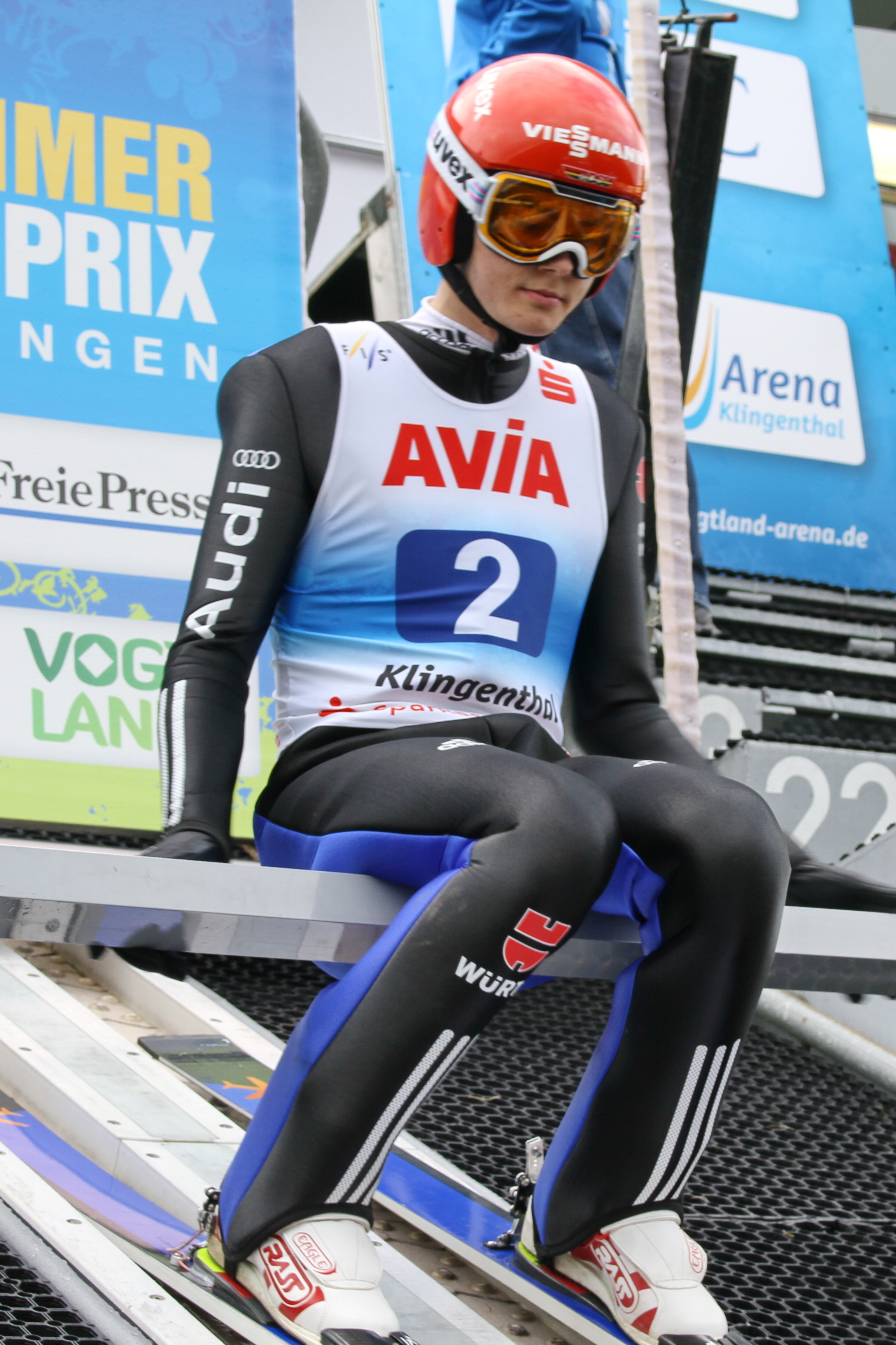 FIS Ski Jumping Summer Grand Prix Klingenthal 2017 on 2017-10-03 David Siegel